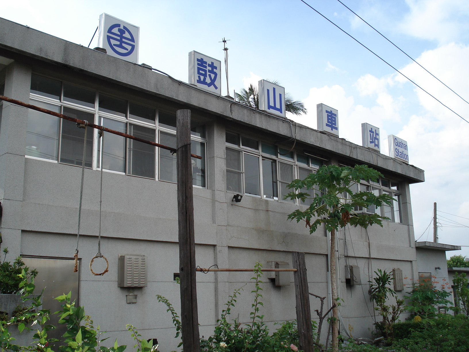 台鐵鼓山車站。 Kaohsiung Port Station of Taiwan Railway Administration.